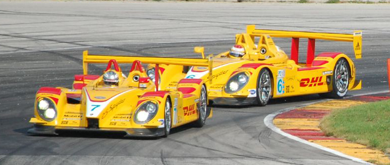 Romain Dumas followed by Ryan Briscoe, both in Penske Porsche RS Spyders at the 2007 Generac 500